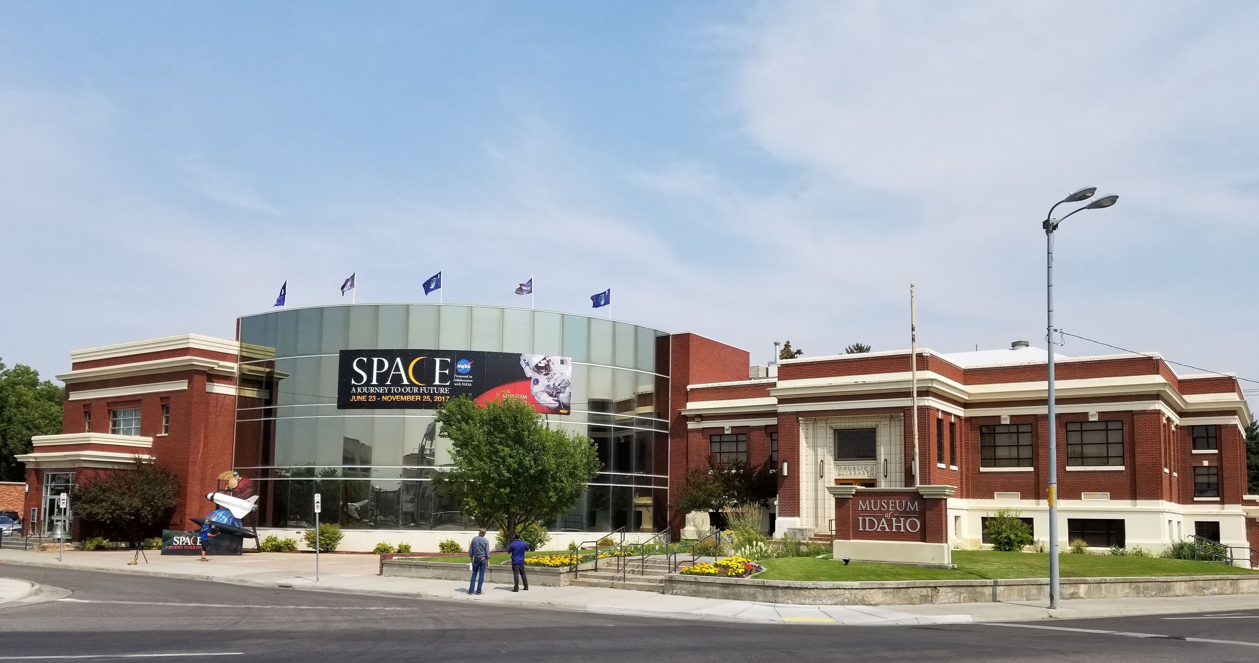 Exterior photo of the Museum of Idaho in Idaho Falls in summer 2017, with advertisements for "Space: A Journey to Our Future" exhibit.